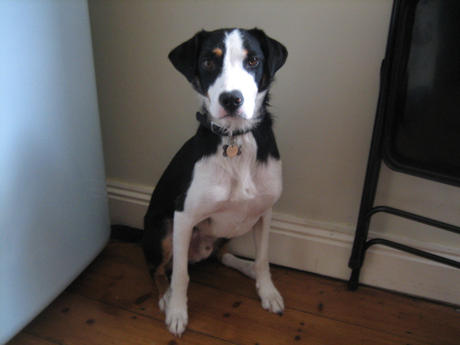 Welsh Collie descended from a long line of working dogs from a farm in the Breacon Beacons in Wales, United Kingdom